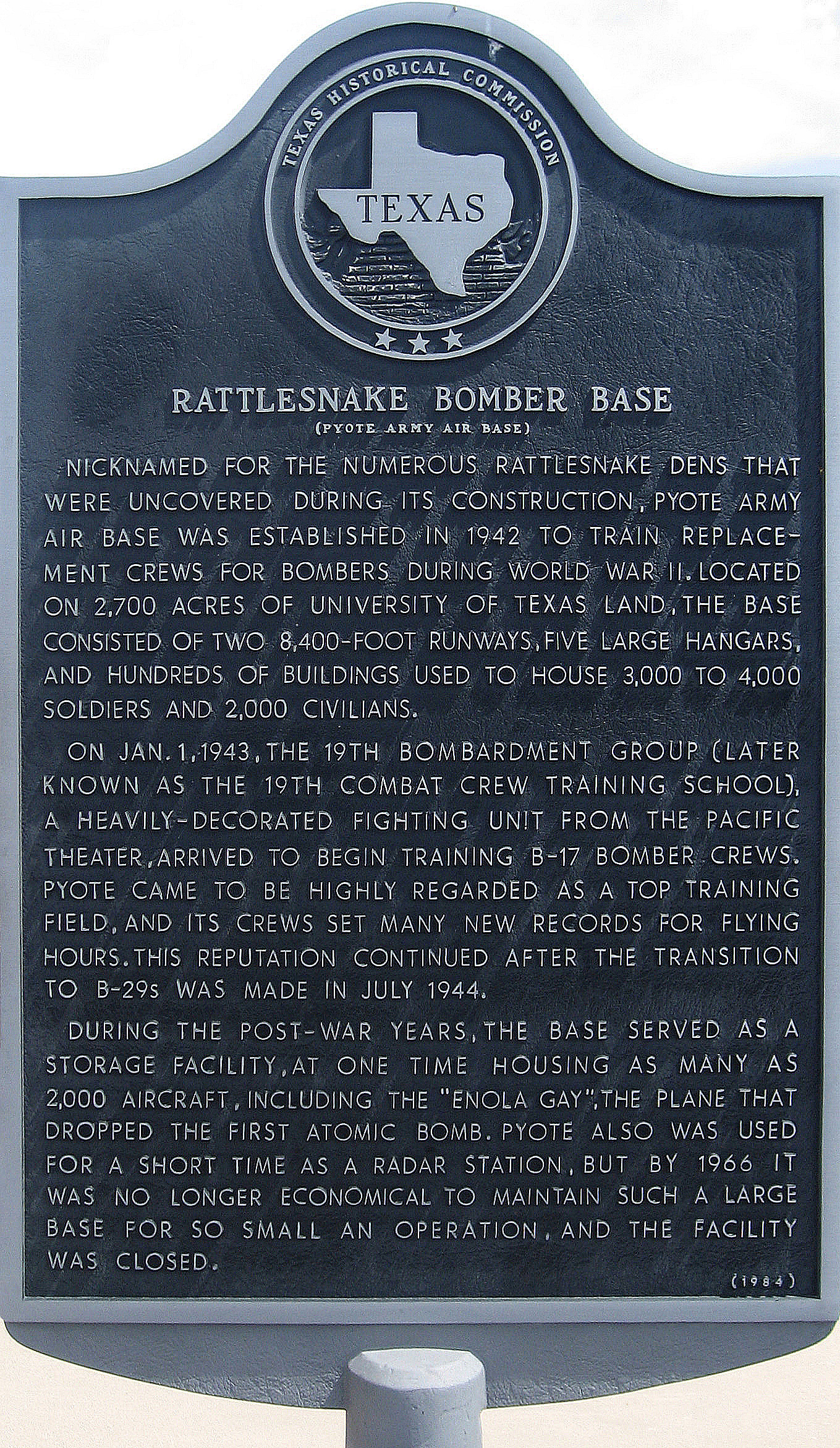 Nicknamed for the numerous rattlesnake dens that were uncovered during its construction, Pyote Army Air Base was established in 1942 to train replacement crews for bombers during World War II. Located on 2,700 acres of University of Texas land, the base consisted of two 8,400-foot runways, five large hangars, and hundreds of buildings used to house 3,000 to 4,000 soldiers an 2,000 civilians. On Jan. 1, 1943, the 19th Bombardment Group (later known as the 19th Combat Crew training B-17 bomber crews. Pyote came to be highly regarded as a top training field, and its crews set many new records for flying hours. This reputation continued after the transition to B-29s was made in July 1944. During the post-war years, the base served as a storage facility, at one time housing as many as 2,000 aircraft, including the "Enola Gay", the plane that dropped the first atomic bomb. Pyote also was used for a short time as a radar station, but by 1966 it was no longer economical to maintain such a large base for so small an operation, and the facility was closed.